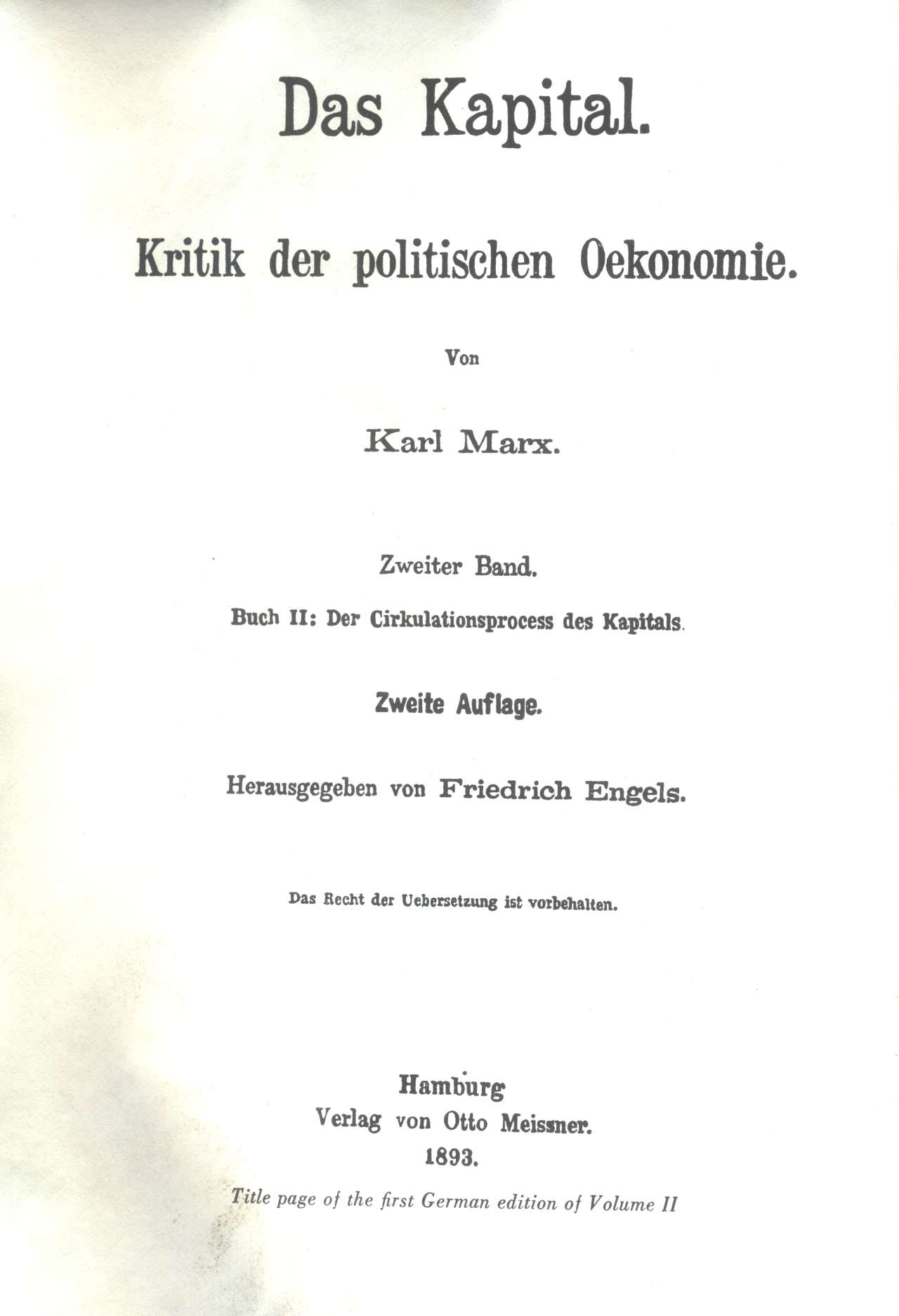 Das Kapital, Volume II.